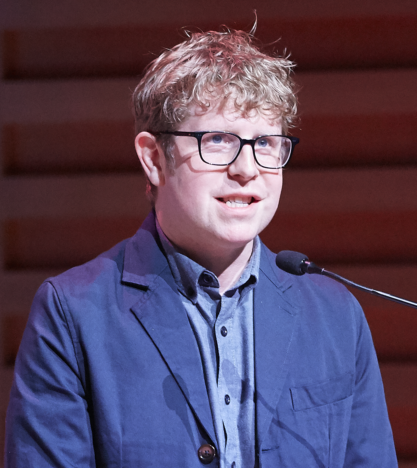 Josh Widdicombe and Chris Scull